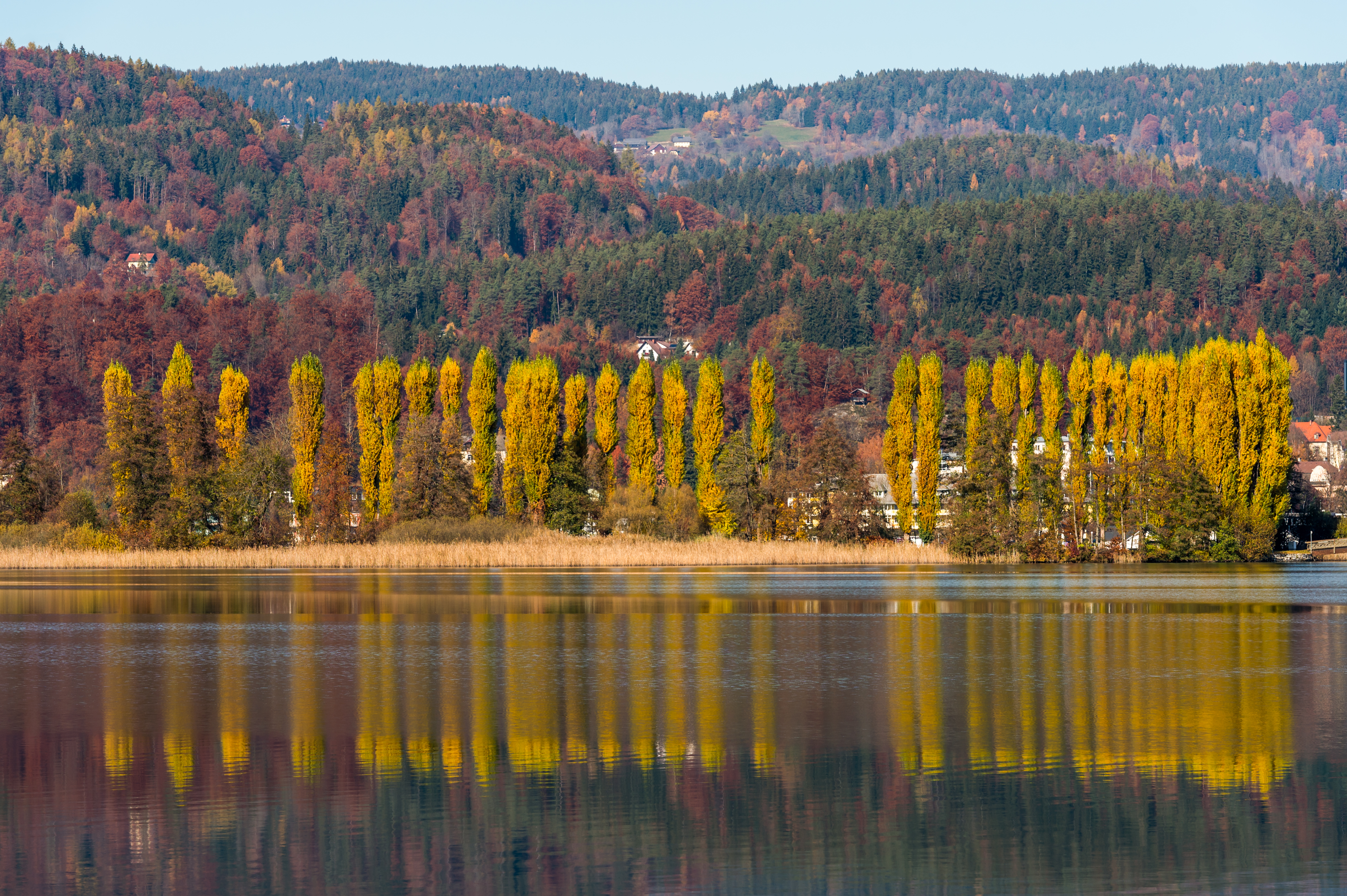 Poplar trees on the Blumeninsel ("Flower Island"), part of the lido, municipality Pörtschach am Wörther See, district Klagenfurt Land, Carinthia, Austria, EU